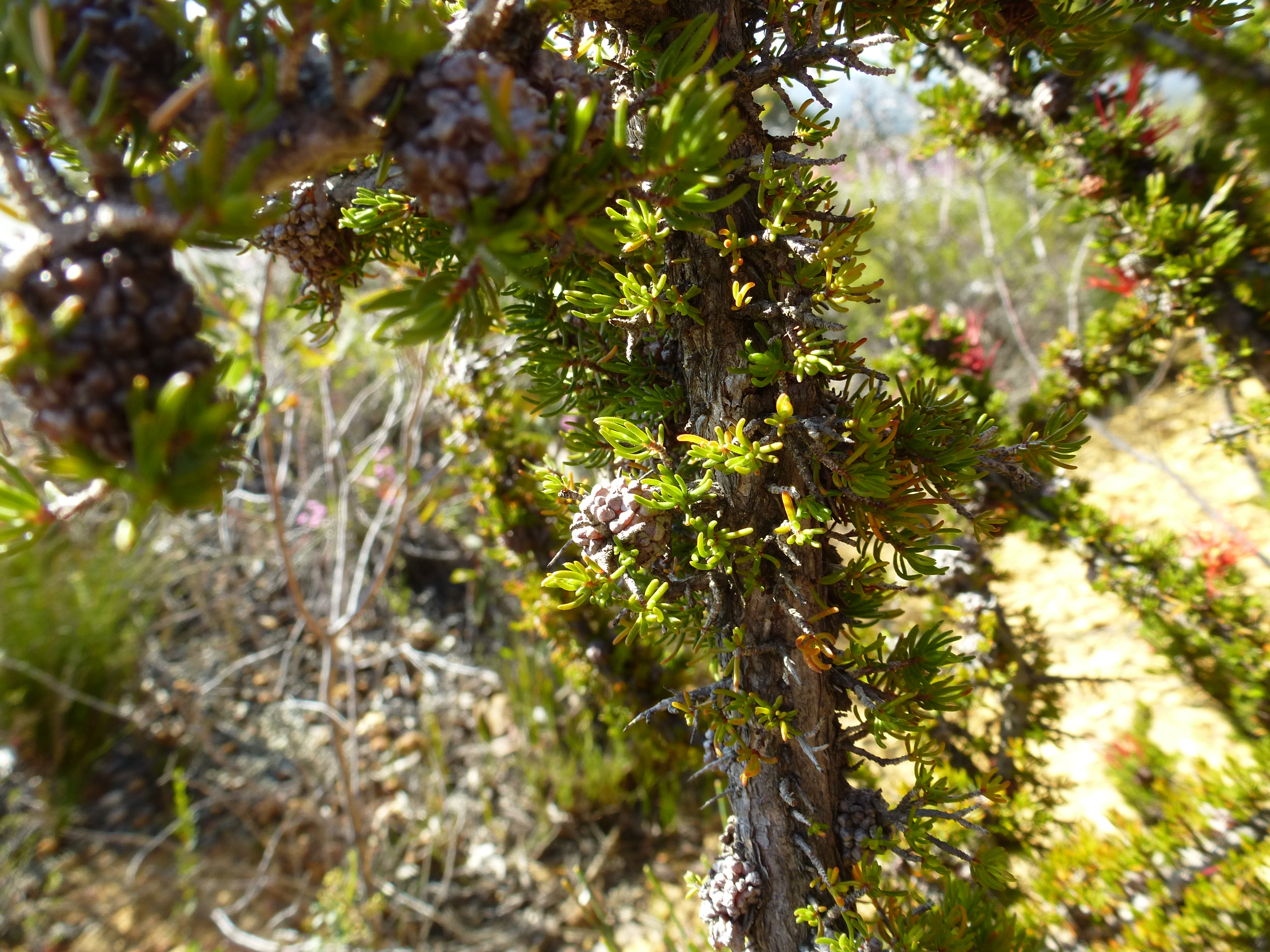 Beaufortia cyrtodonta growing near the Bluff Knoll walking track